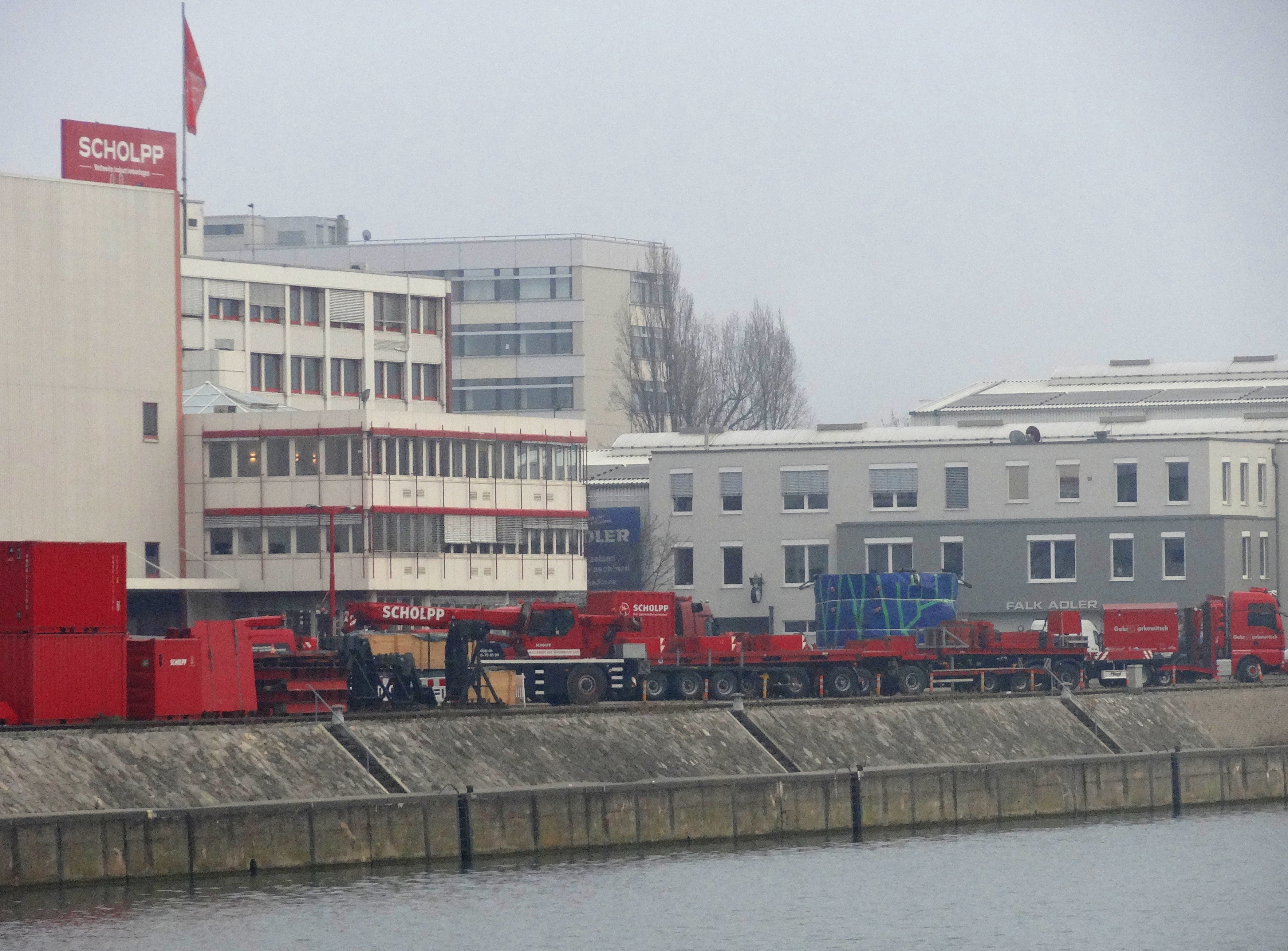 Transport of the tunnel drilling machine for the Fildertunnel of the Stuttgart 21 project; port of Stuttgart, December 12, 2013